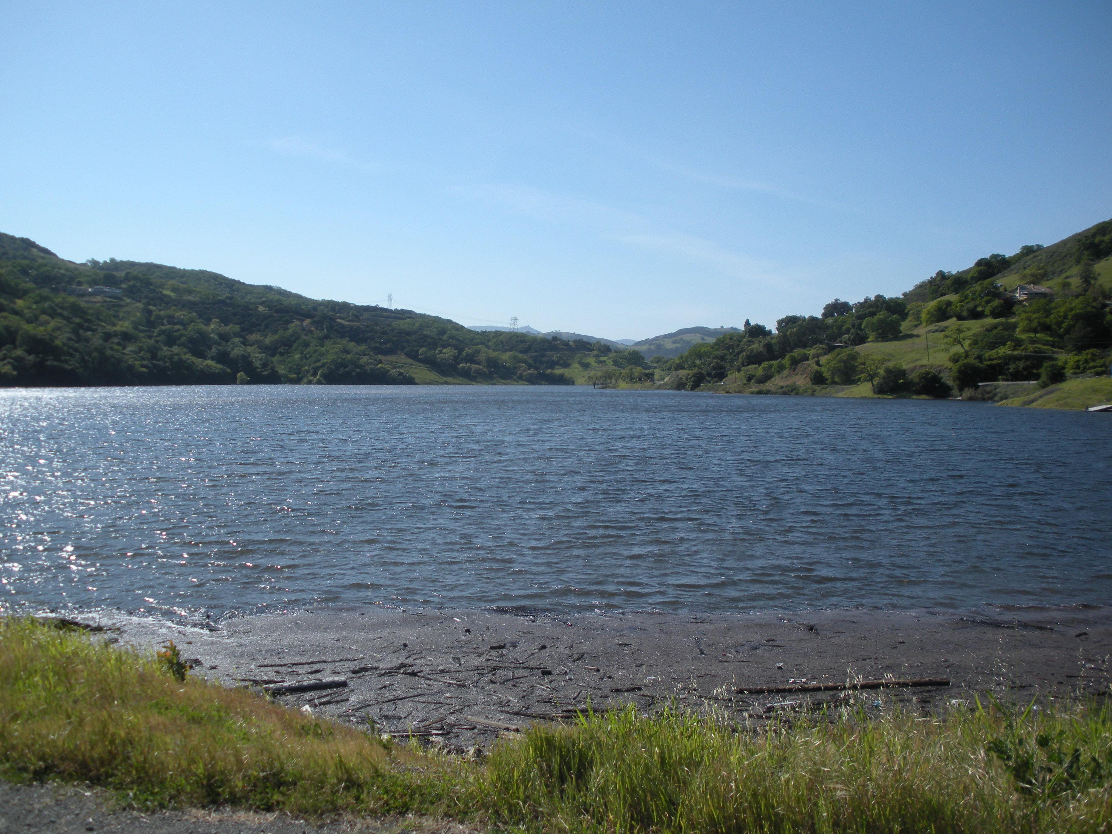 This is a view of Chesbro Reservoir. Originally posted to my Flickr